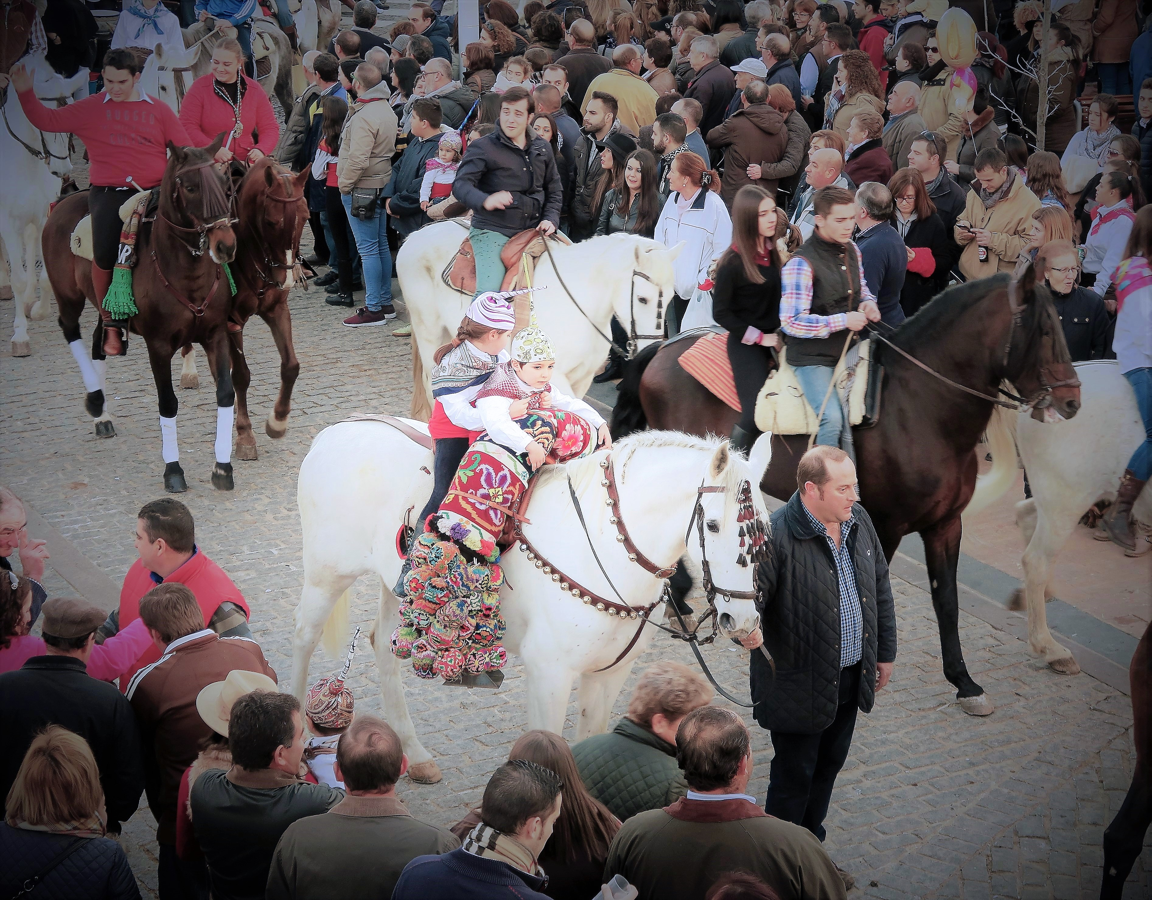 This is a photography of a Folklore festival in Spain (Wikidata id Q5963233).